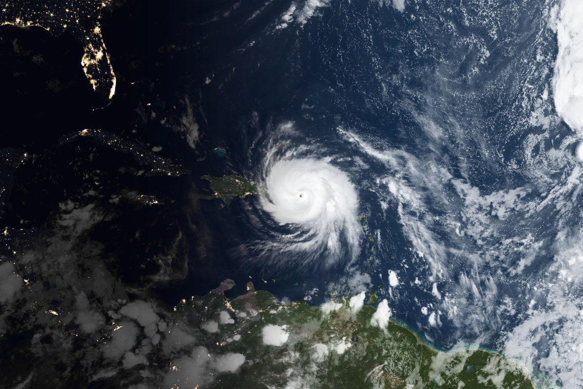 The composite image above shows Maria as it was making landfall near Yabucoa. Infrared (band 4) and visible data (band 1) from Geostationary Operational Environmental Satellite 13 (GOES-13) acquired at 6:15 a.m. local time (10:15 Universal Time) is overlaid on blue marble data from the Moderate Resolution Imaging Spectroradiometer (MODIS) and black marble data from the Visible Infrared Imaging Radiometer Suite (VIIRS). The series of GOES satellites are operated by the National Oceanic and Atmospheric Administration (NOAA), while NASA helps develop and launch them.